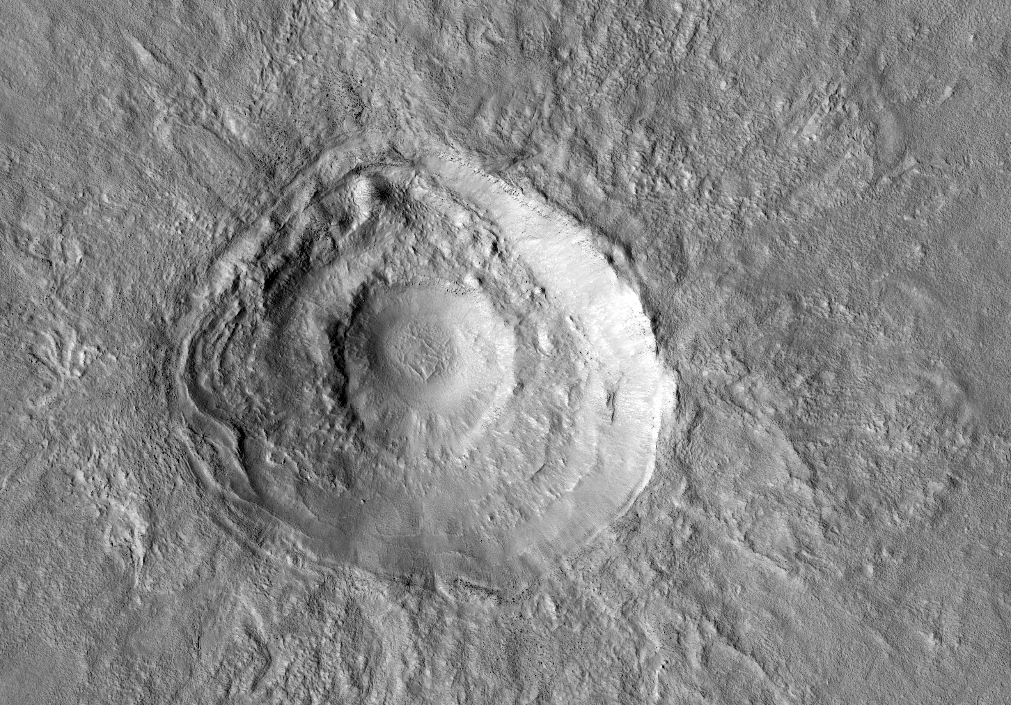 Impact craters that are only a few kilometers in size on Mars usually have simple bowl shaped interiors with craters in weaker material being larger than craters in stronger material. Occasionally though, nature is more complicated and these simple rules don't apply. One such case is shown here where is appears as if there are craters nested within each other. These nested craters are probably caused by changes in the strength of the target material. This usually happens when a weaker material overlies a stronger material. We can use craters like this to tell us something about what lies below the surface. What could be causing the change in strength in the subsurface? Mars has a lot of ice in its terrain near the surface. This ice-rich layer could be the weaker material and the deeper ice-free layer could be the stronger material. Written by: Shane Byrne (1 August 2012) Size of the crater is 5 km (an image with scale) Location: 40.104° N, 125.005° E